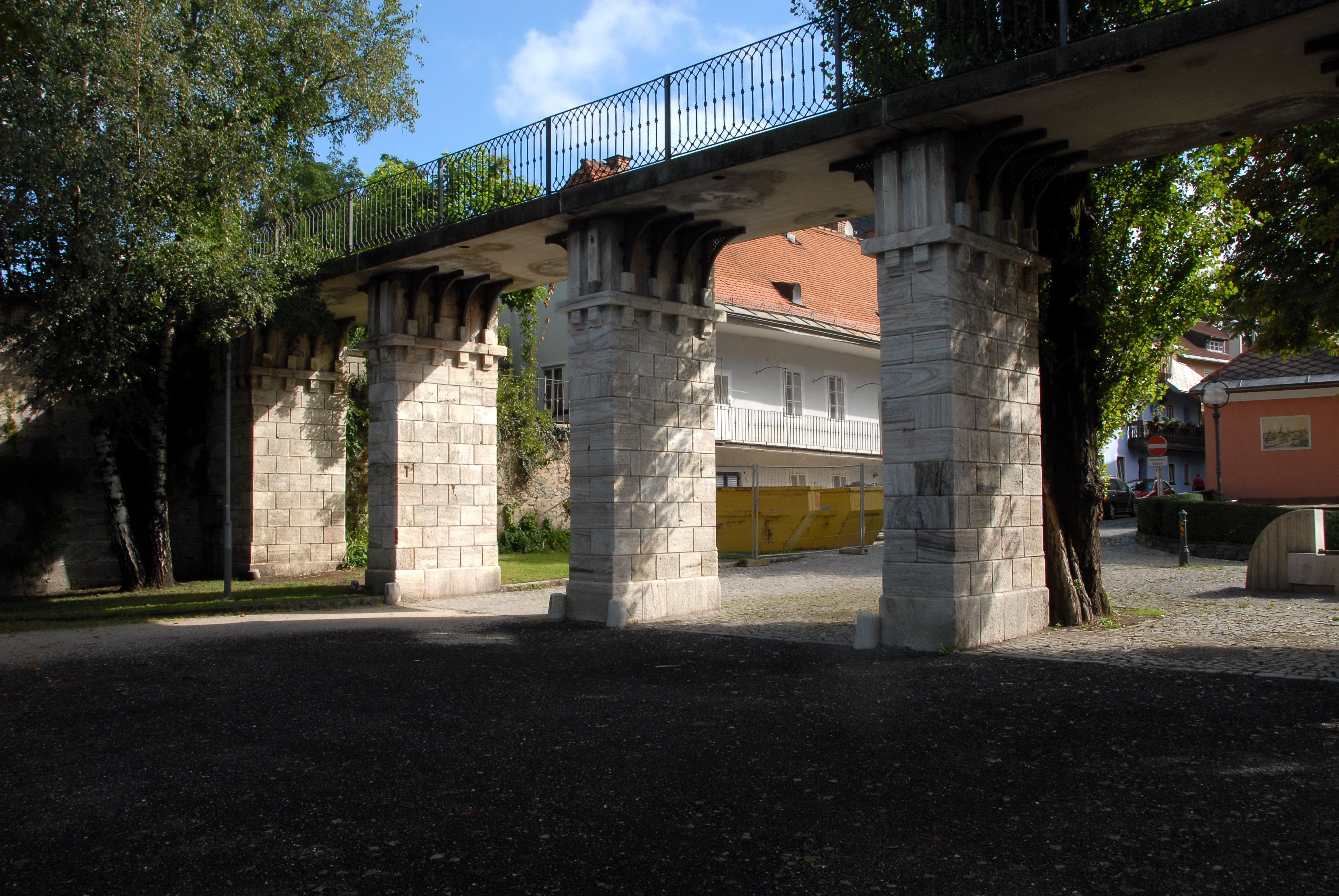 Elisabeth bridge, built from Töschling marble by Domenico Venchiarutti in 1855-56, across the Lendhafen, 8th district “Villacher Vorstadt”, Klagenfurt, Carinthia, Austria, EU